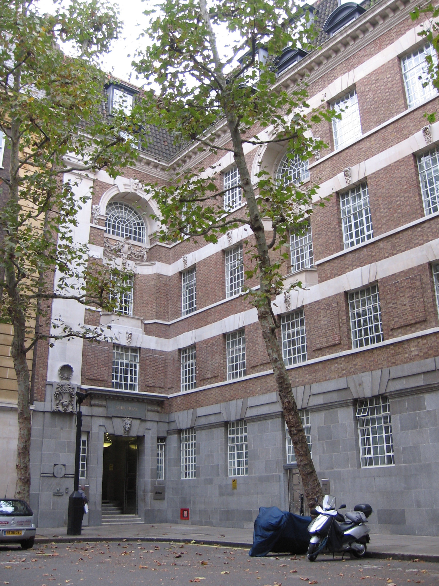 Department for Environment, Food and Rural Affairs headquarters.